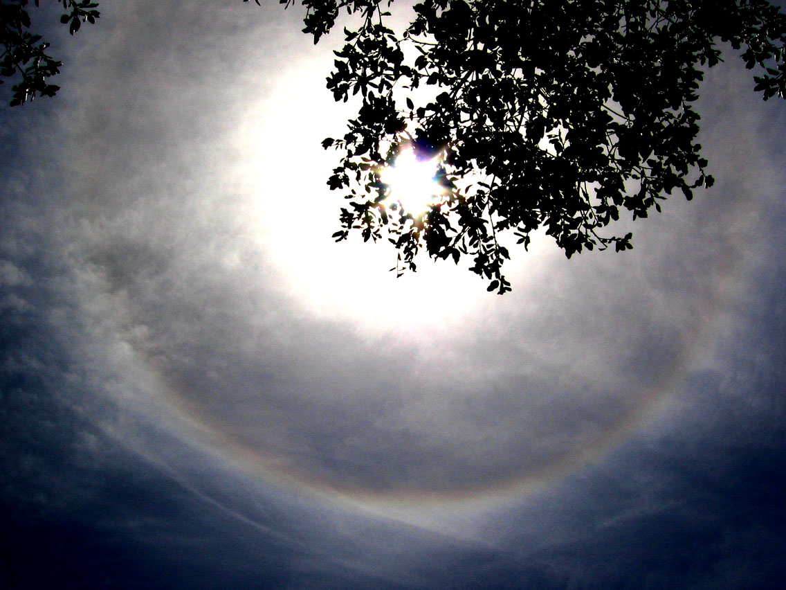 Halo and diffraction disk, There is also a brighter nearly white diffraction disk nearer the sun, with red on the outside.